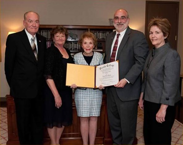 Former First Lady Nancy Reagan, center, was awarded an honorary degree from Eureka College on March 31, 2009. Pictured with her are, from left, former Eureka College trustee Richard Owen, Fran Owen, Eureka College President J. David Arnold and Katherine Arnold. Eureka College was former President Ronald Reagan's alma mater. Photo courtesy of the Ronald Reagan Presidential Library and Museum.